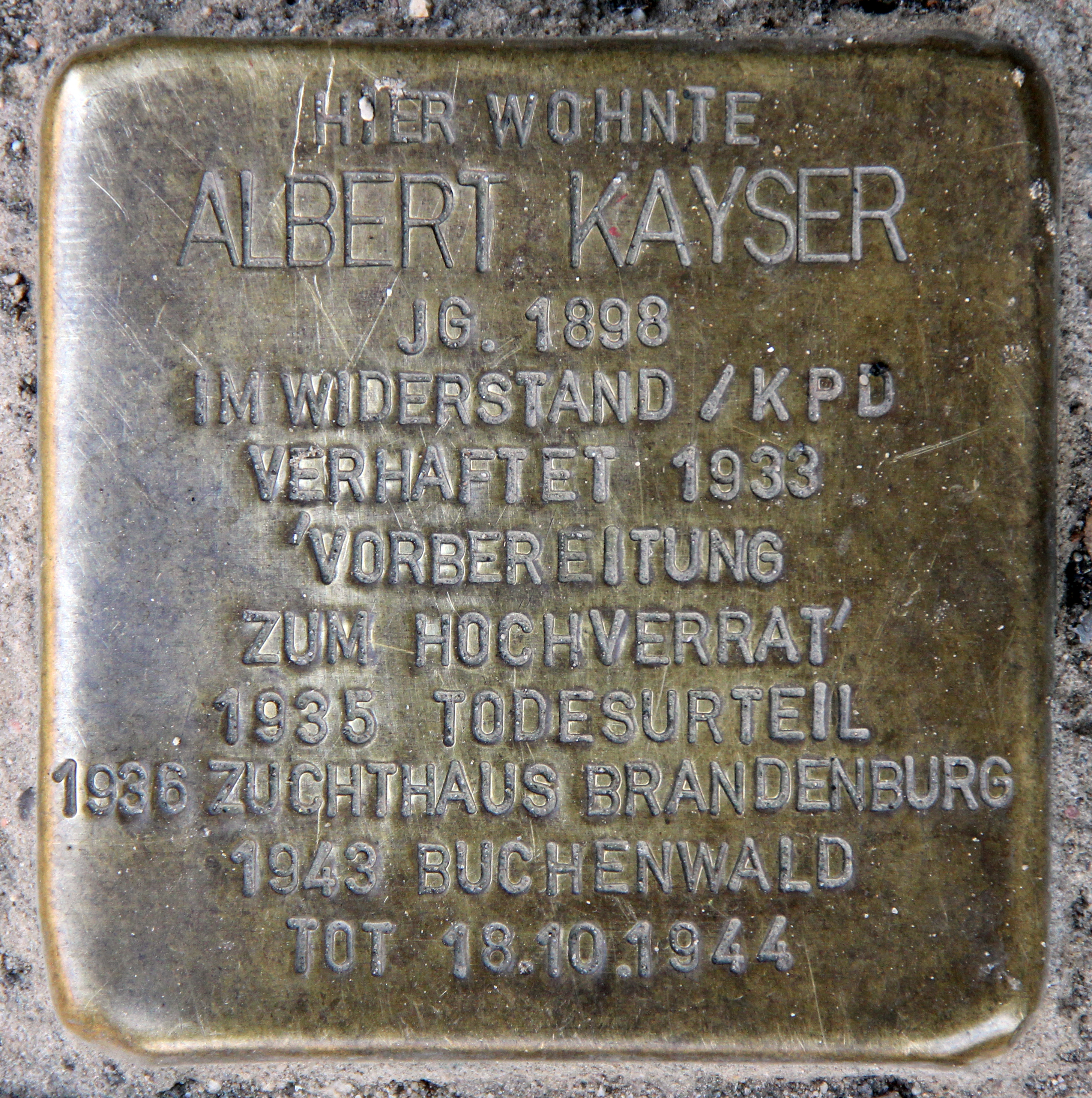 "Stolperstein" (stumbling block), Albert Kayser, Groninger Straße 22, Berlin-Wedding, Germany